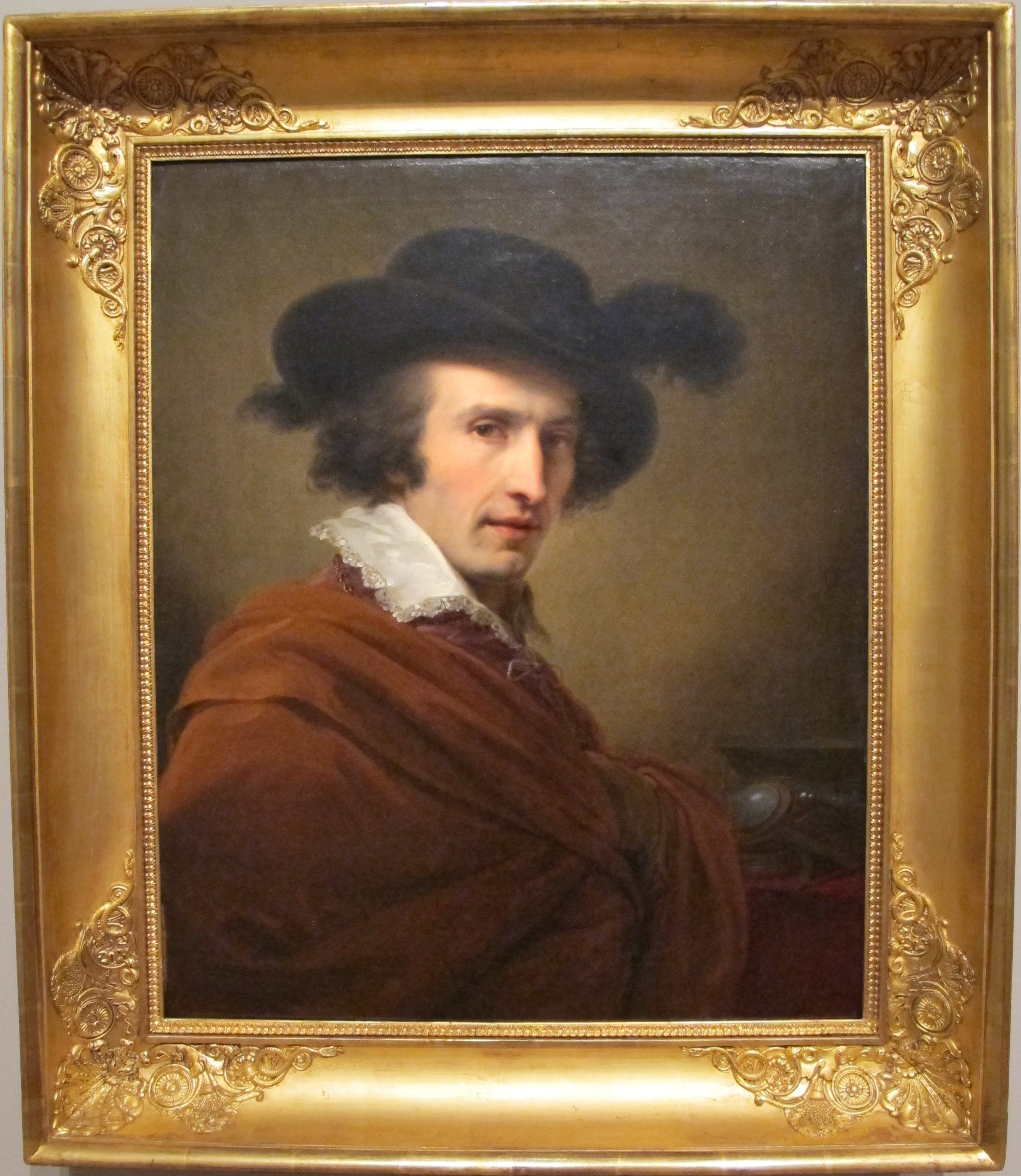 Portrait of Nicolas Soret